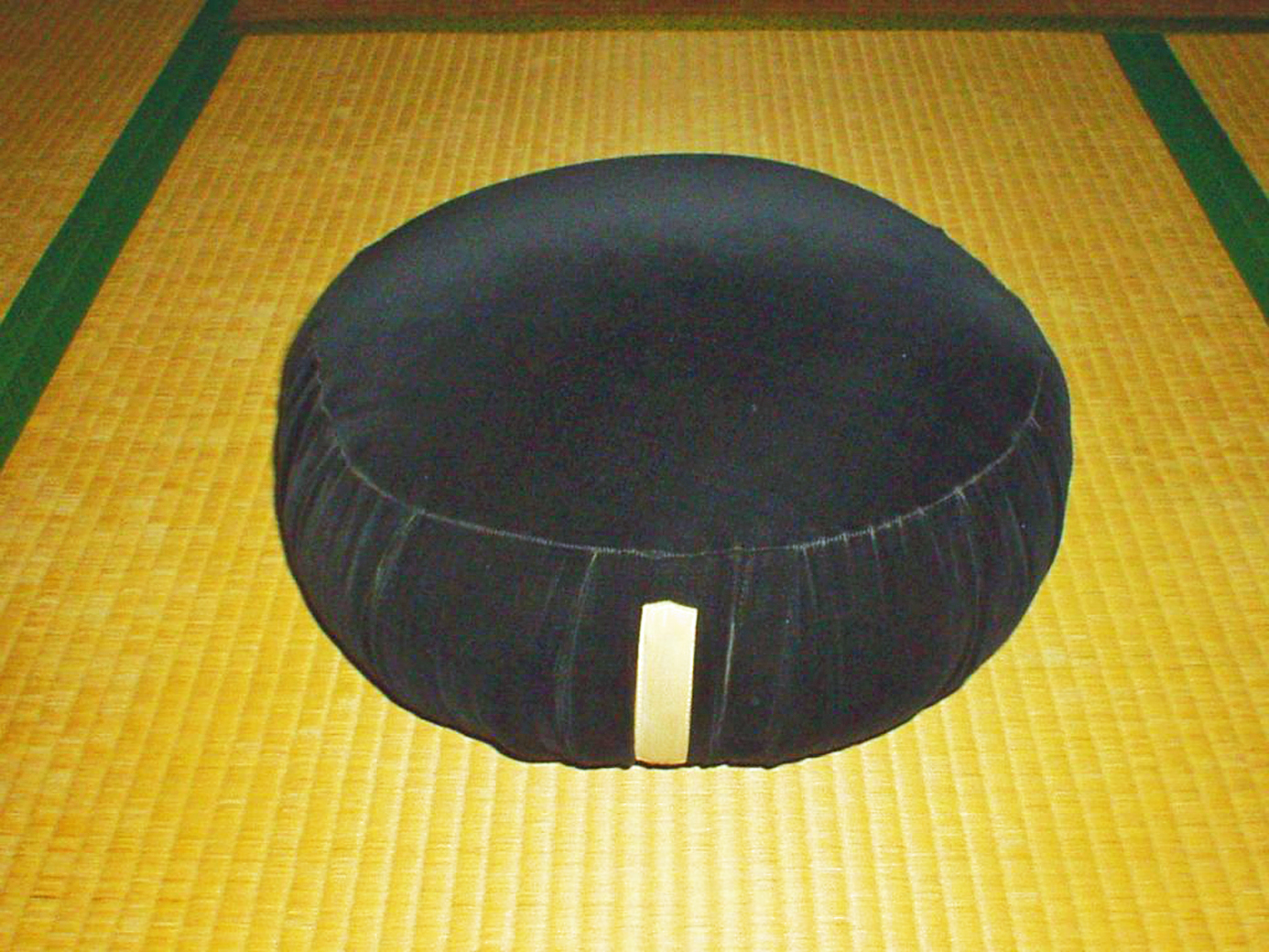 Zazen cushion used by Soto-zen school.